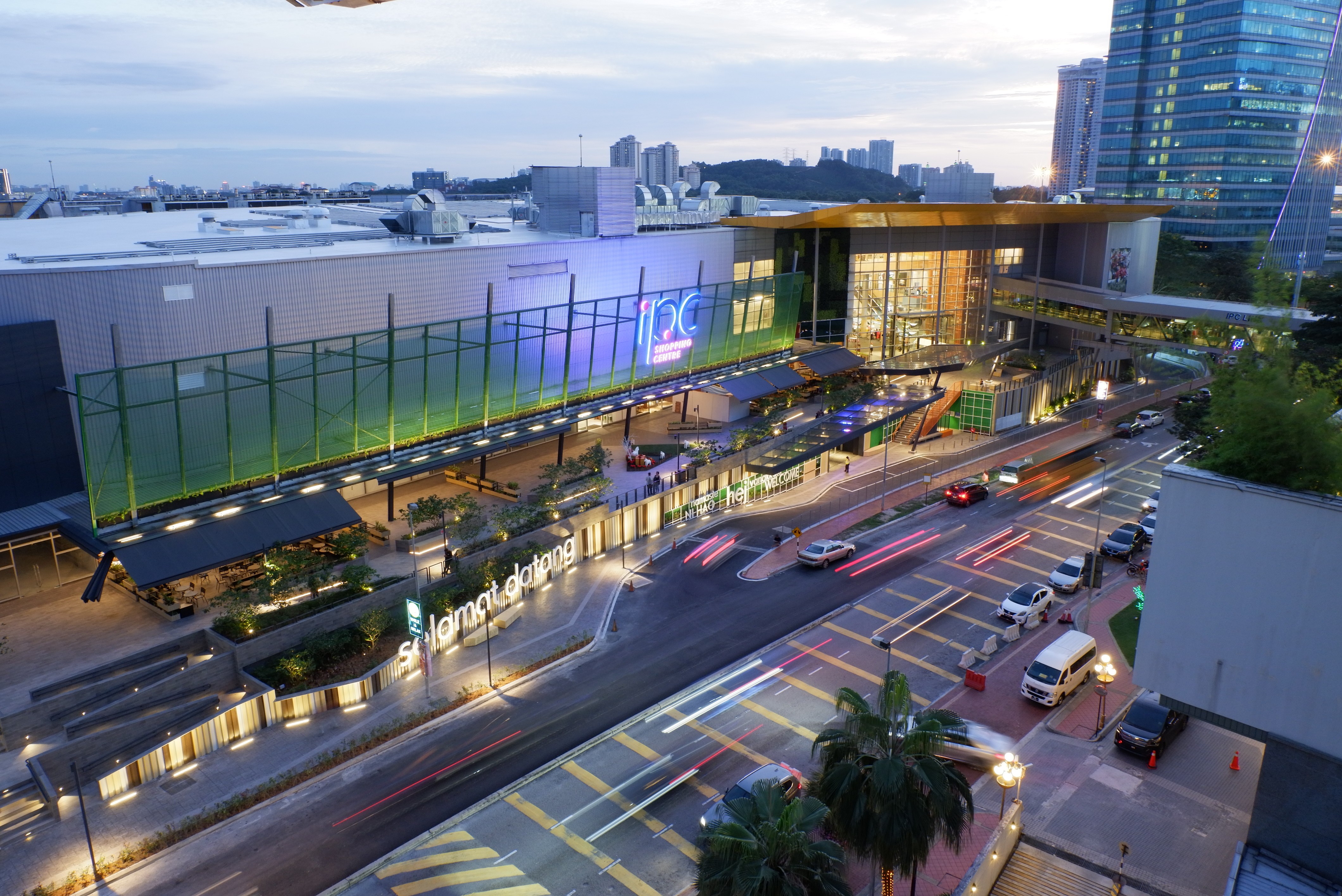 Welcome back to your quintessential neighbourhood shopping centre in the hub of Mutiara Damansara, where memories are made and time is well spent, with people that matter. It is a home away from home, amidst the tranquillity of Scandinavian design and atmosphere where you’ll always find that positive warmth as you browse through the array of shopping offerings and more. Anchored by IKEA Damansara and integrated with a wide range of value-driven retailers, IPC Shopping Centre has been carefully crafted to reengineer the shopping experience for the entire family.